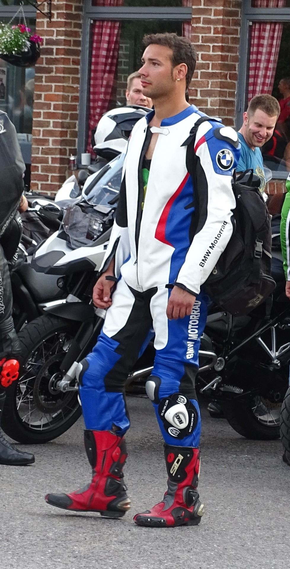 best ever